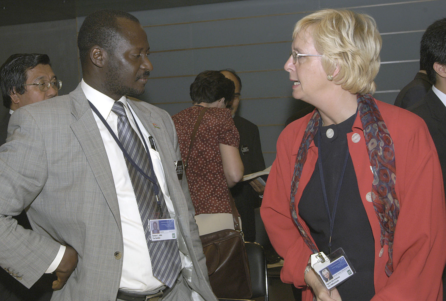 Famara Jatta, Finance and Economic Affairs Secretary of The Gambia, with Agnes Van Ardenne, Minister for Development Cooperation of the Netherlands.